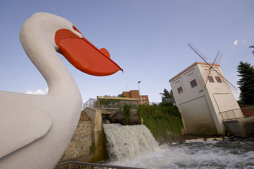 The world's largest pelican!